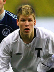 Denis Tumasyan in action for FC Torpedo Moscow